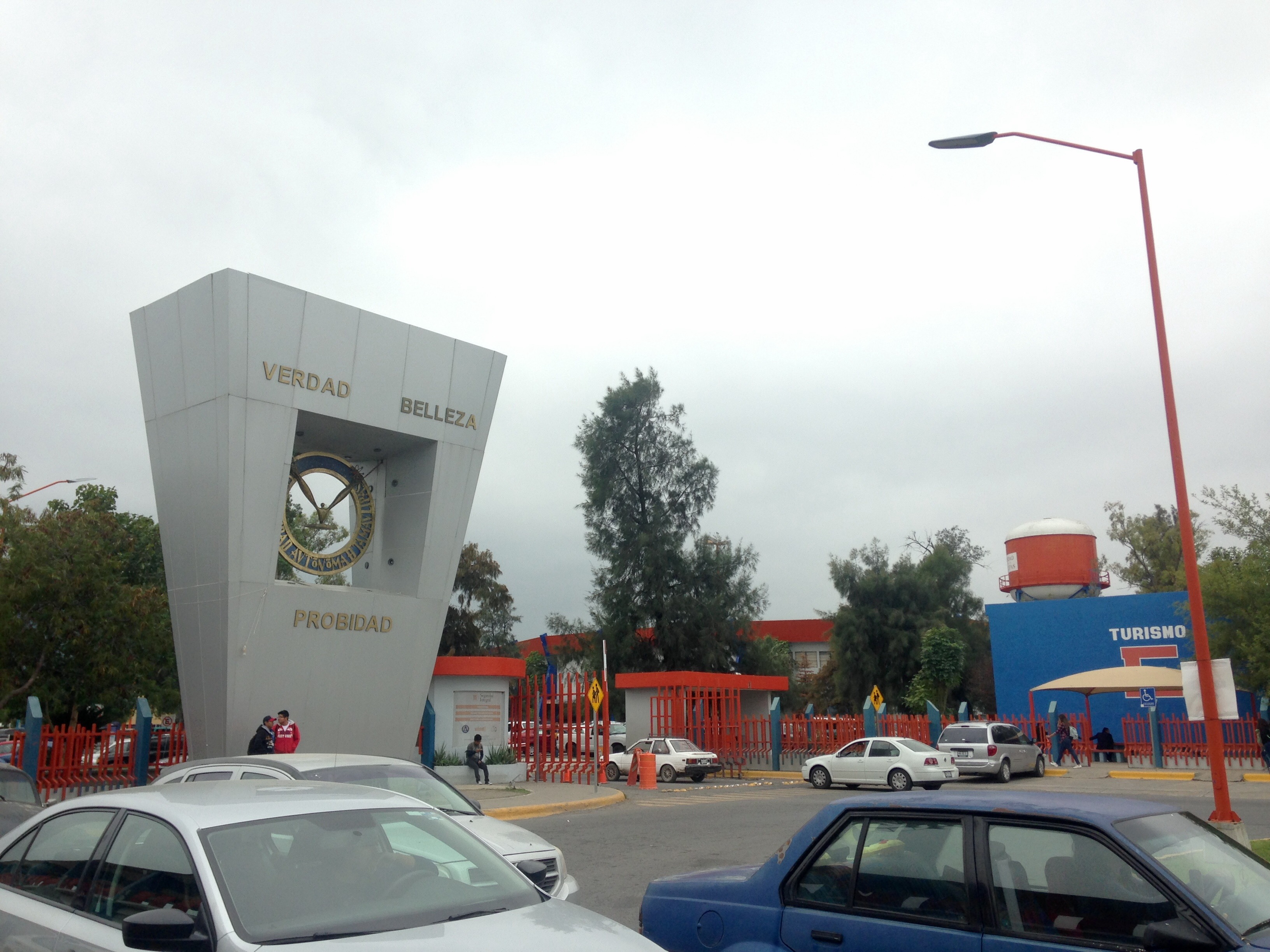 Acceso principal a la Universidad Autonoma de Tamaulipas en Ciudad Victoria